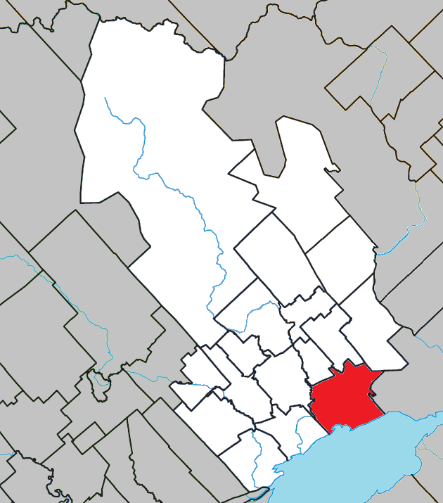 Location of Yamachiche, Quebec within Maskinongé Regional County Municipality.